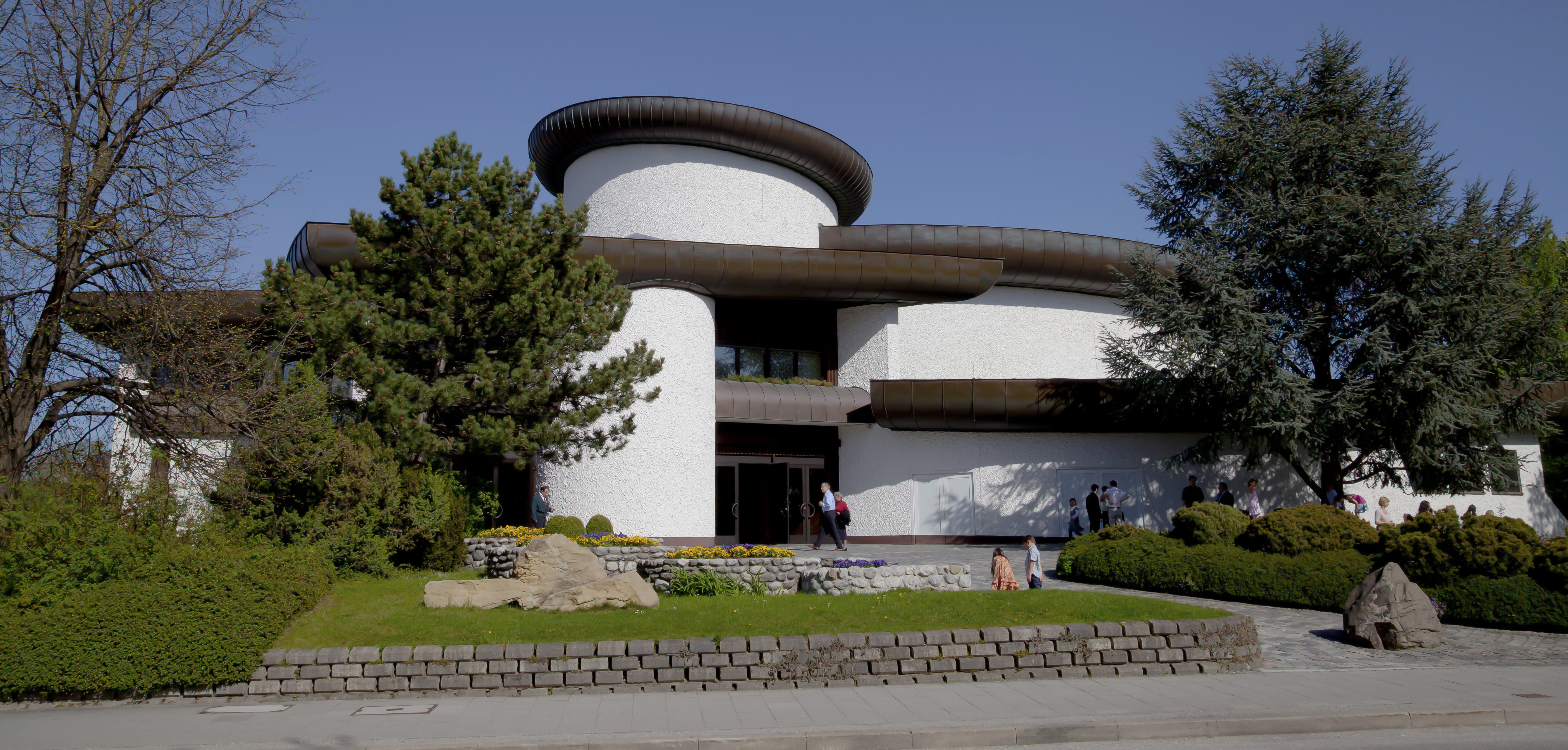 Jehova's Witnesses Kingdom Hall in Riesstr. 4, Munich, Germany